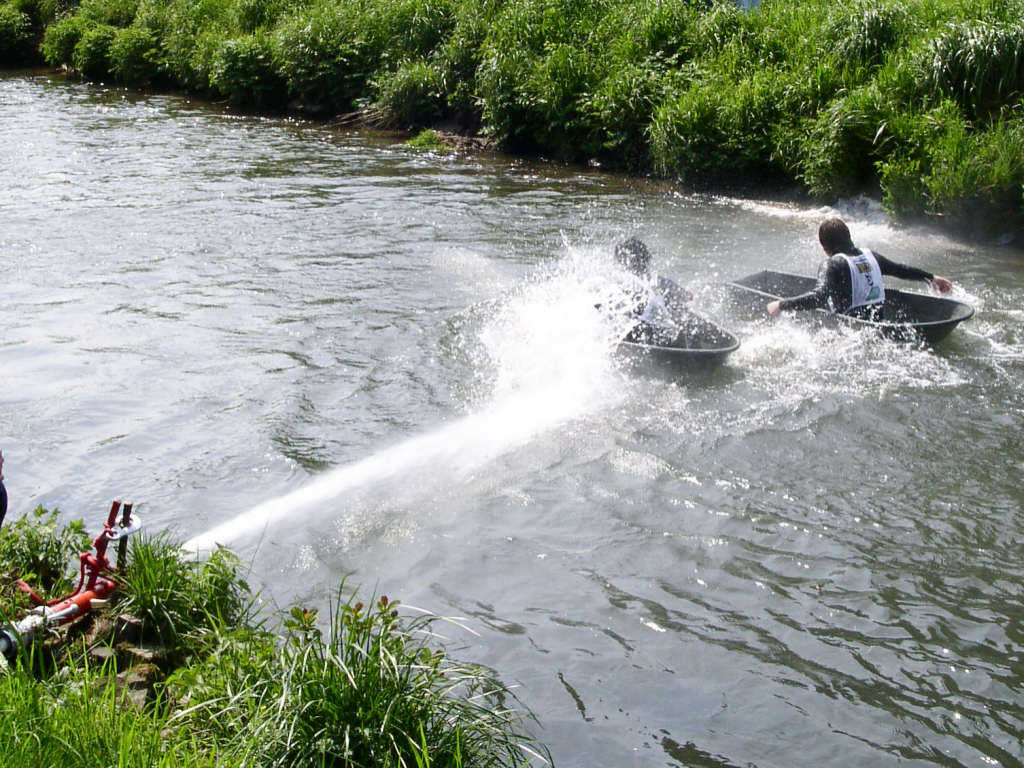 Bathtub contest Hoffnungsthal